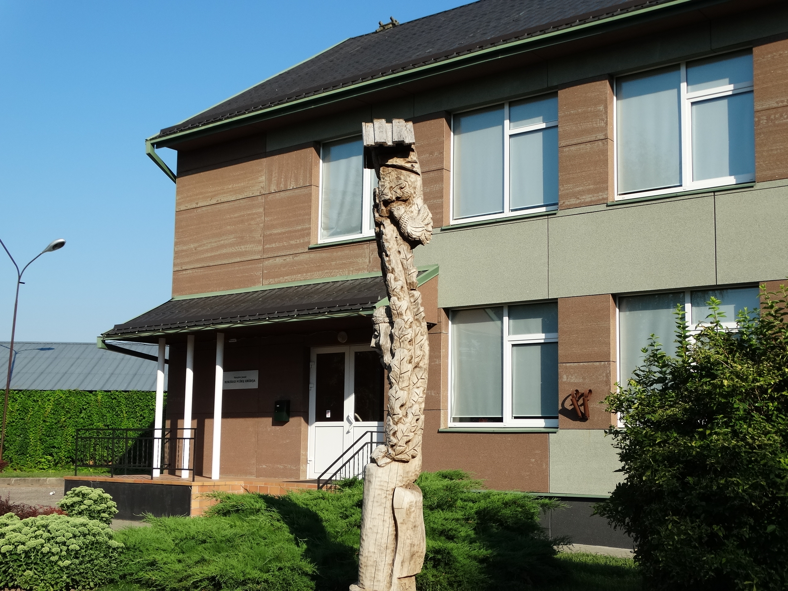 Forest enterprise, Rokiškis, Lithuania